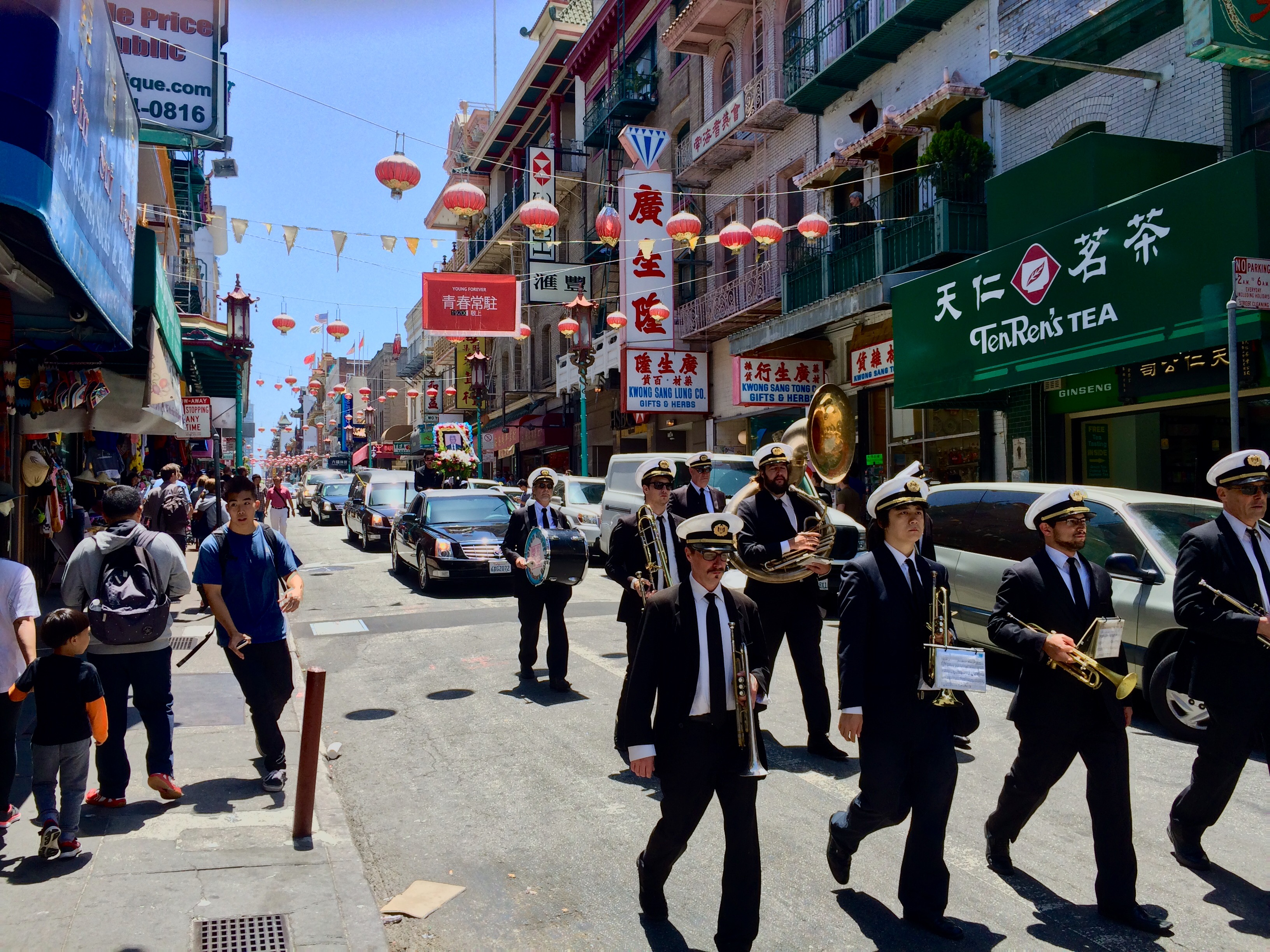 Funeral in down town Chinatown San Francisco